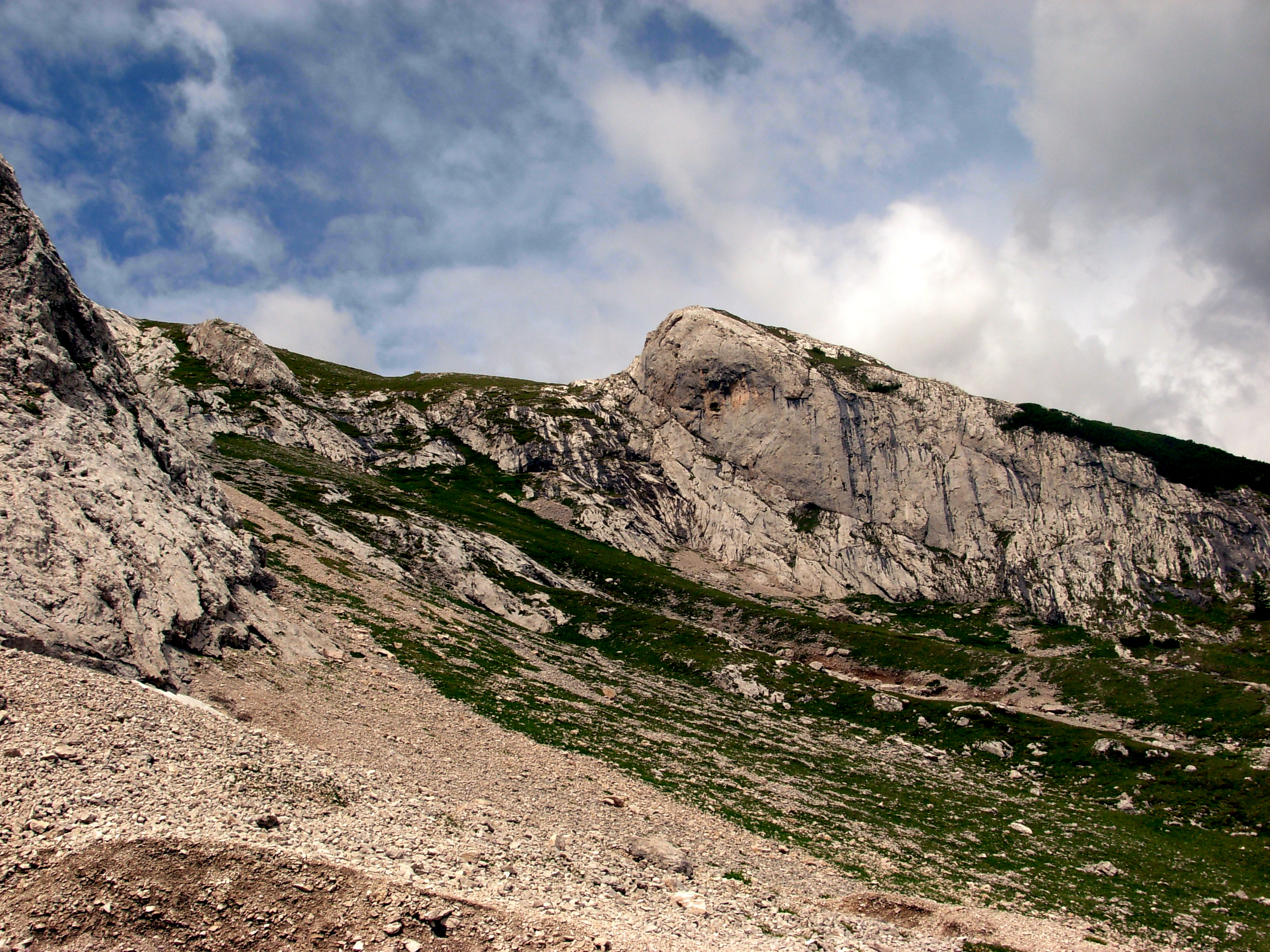 Sas del Mul (2301 m) at foot of Marmolada